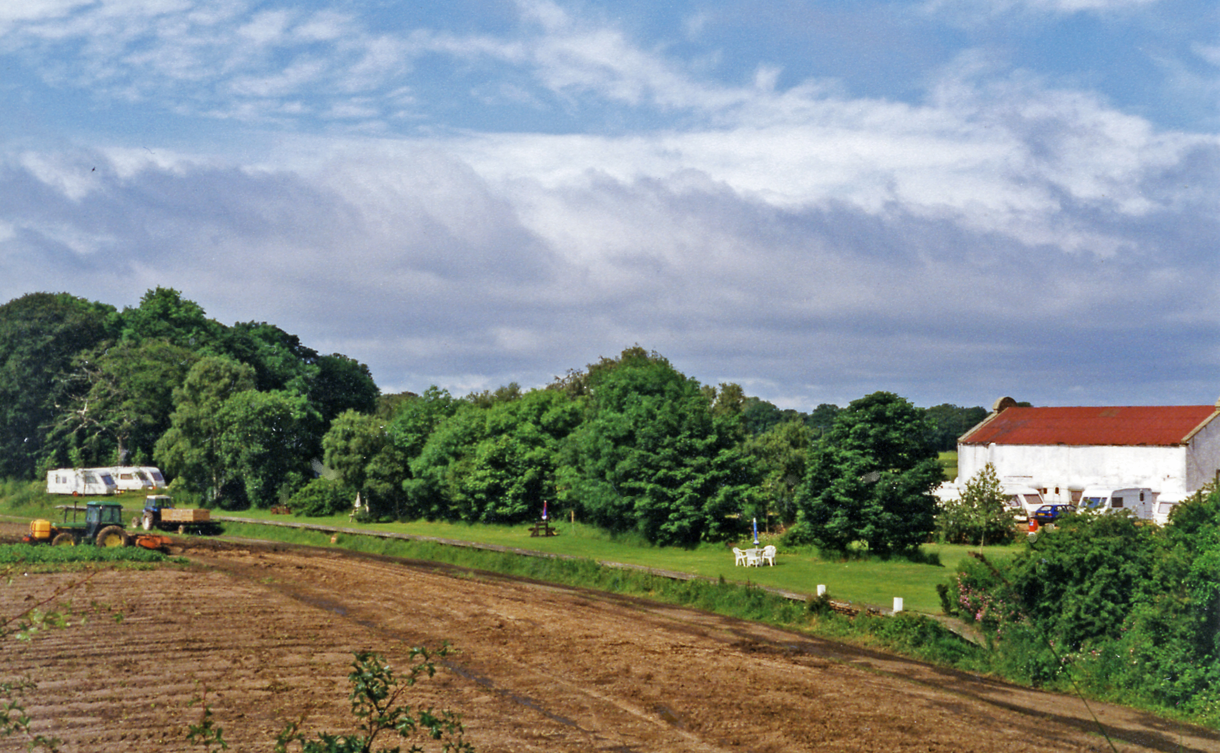 Aberlady station site/remains. View westward, towards Longniddry and Edinburgh: ex-NBR Longniddry (Aberlady Junction) - Gullane branch, which closed to passengers from 12/9/32 but remained open for goods until 15/6/64.